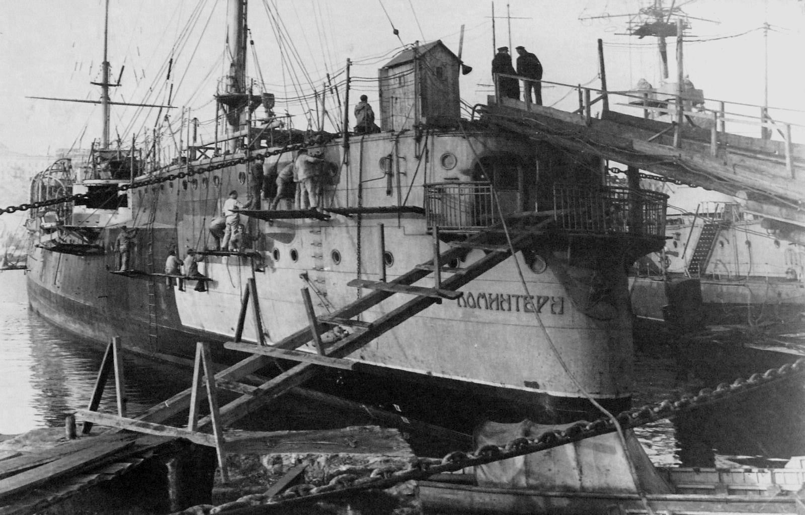 Cruiser Komintern.